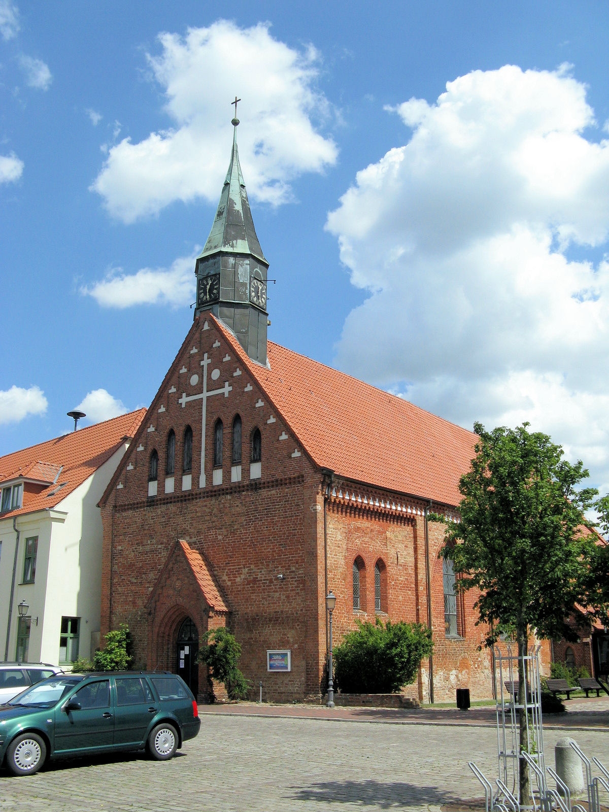 Church in Krakow am See, disctrict Güstrow, Mecklenburg-Vorpommern, Germany